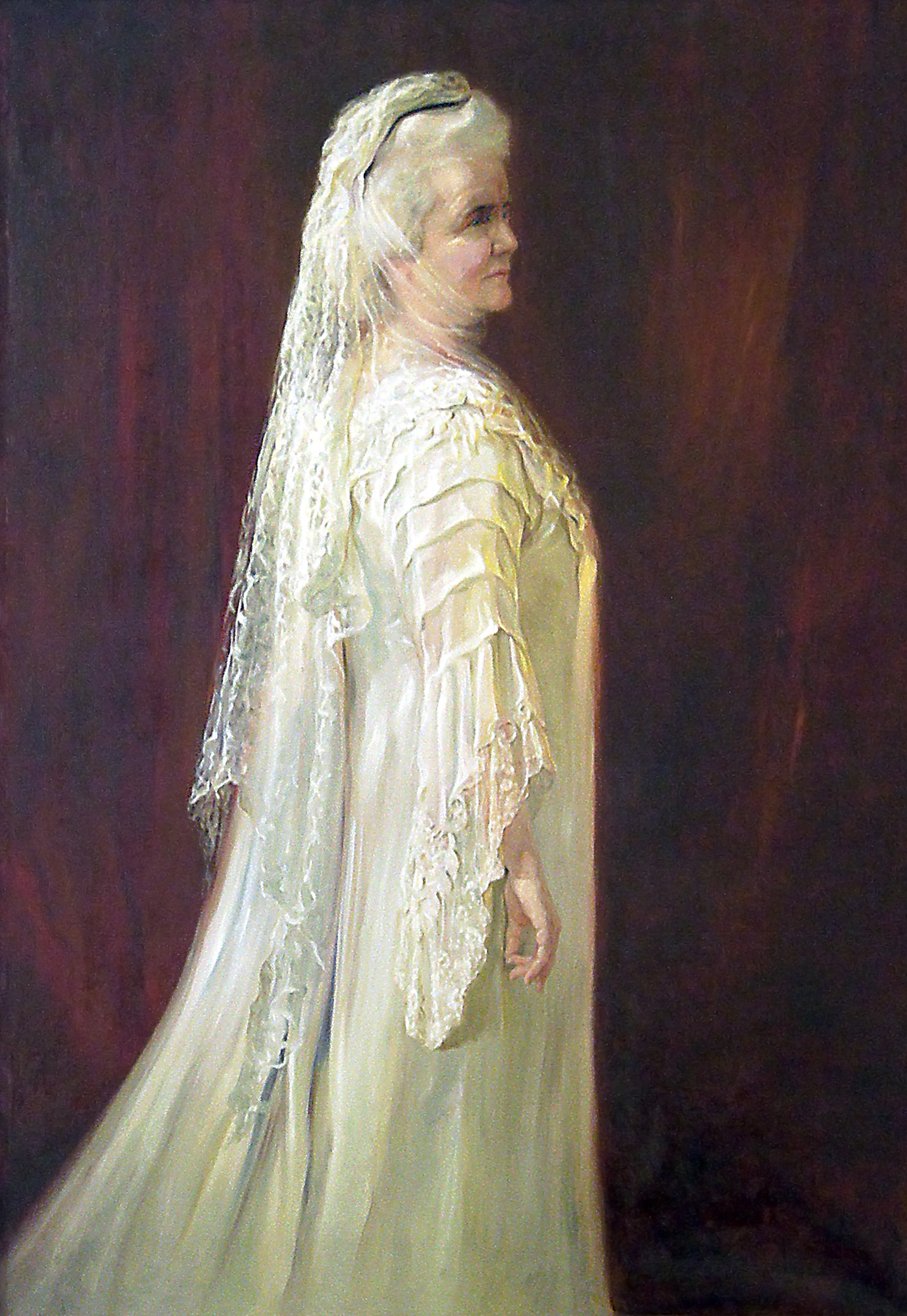 Portrait of Elisabeth of Wied, Queen Consort of Carol I of Romania, widely known by her literary name of Carmen Sylva.